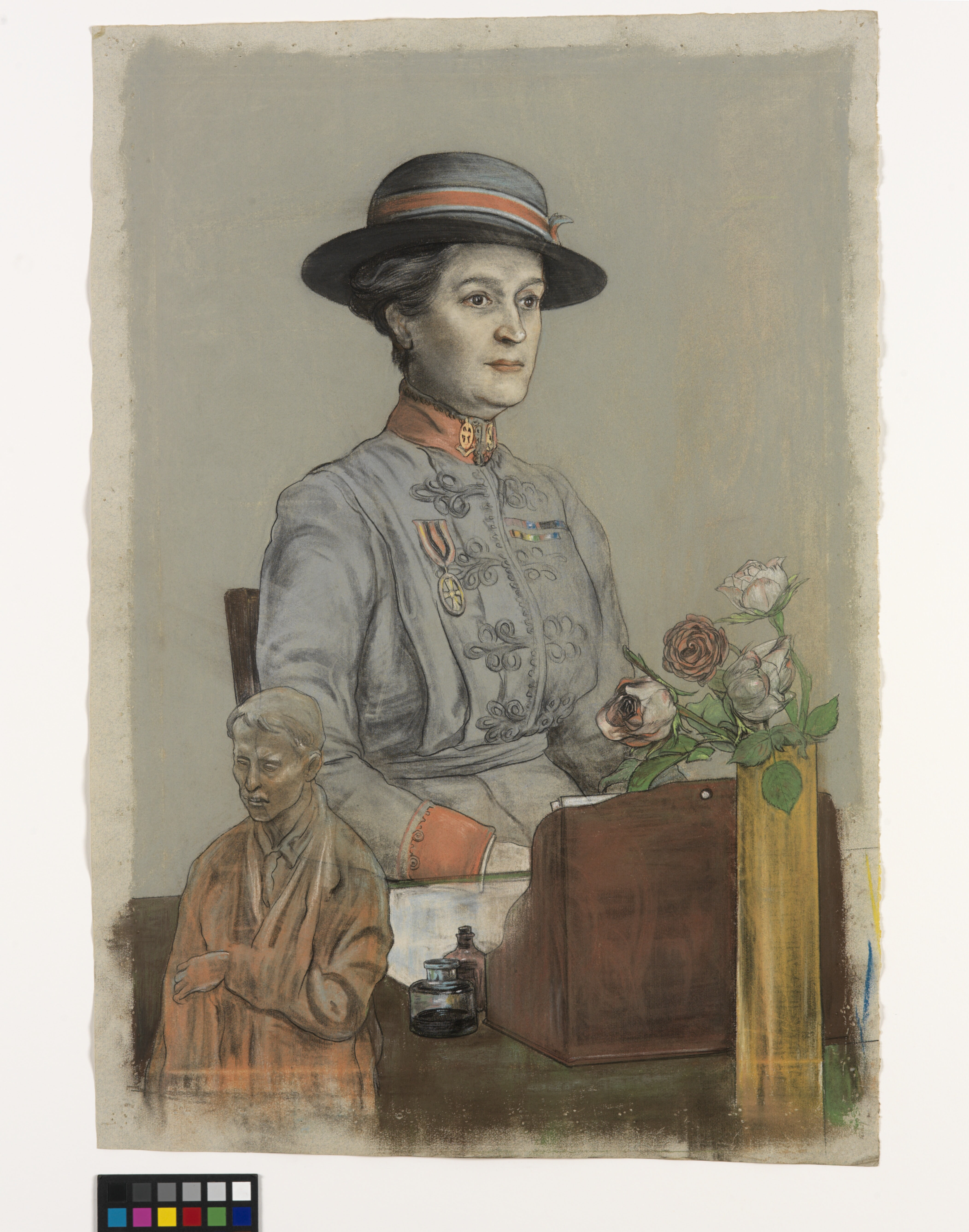 Dame Maud Mccarthy Gbe Rrc- the Matron-in-chief in France of Queen Alexandra's Imperial Military Nursing Service image: a half length portrait of Dame Maud McCarthy, wearing her distinctive grey and red QAIMNS uniform and sitting at a desk. On the desk in front of her is a vase of roses, a wooden letter rack, two bottles of ink and a bust of an injured male patient with his arm in a sling.